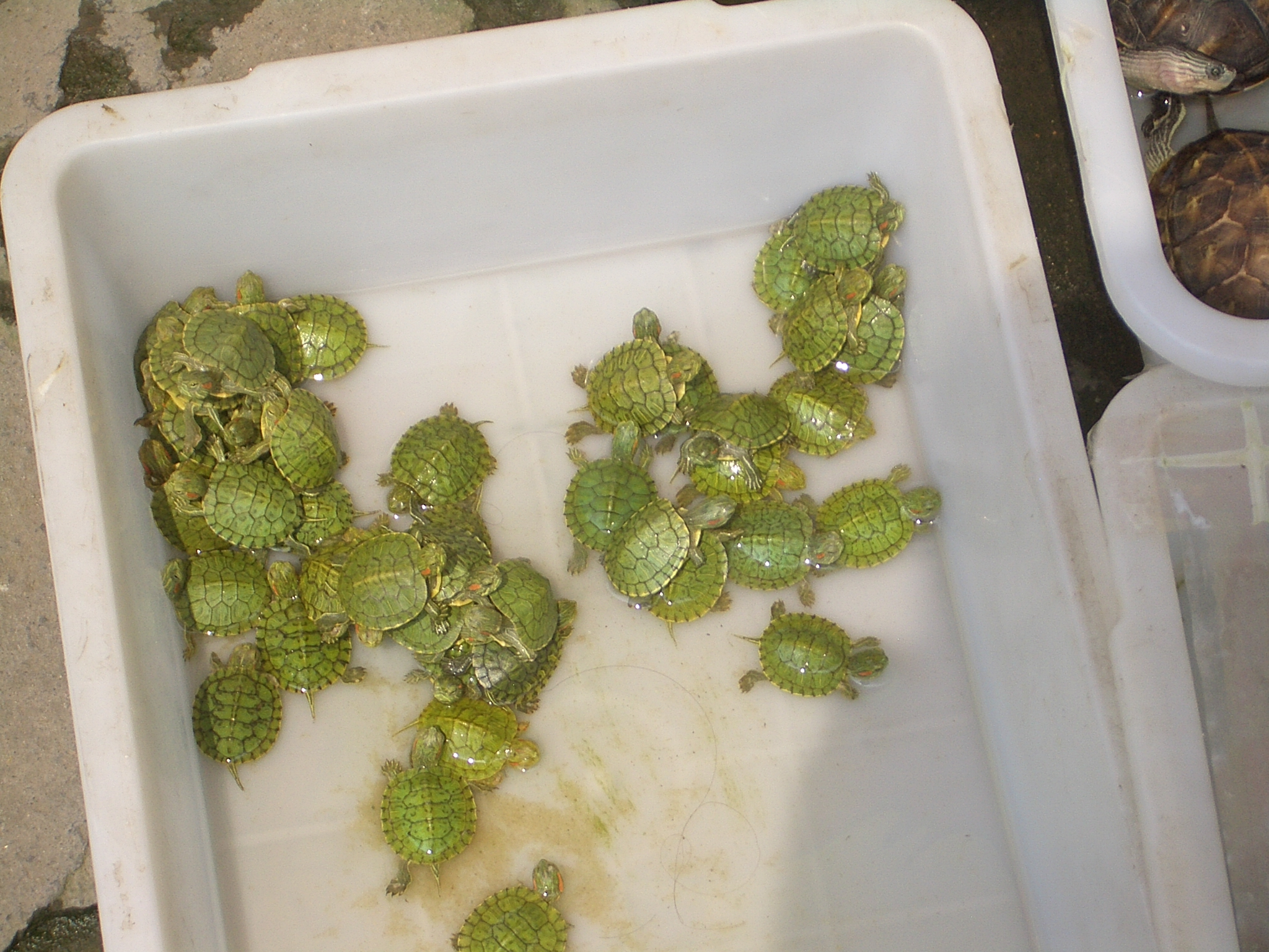 Small green turtles (probably, juvenile Trachemys scripta elegans (?)) sold in a Yangzhou market